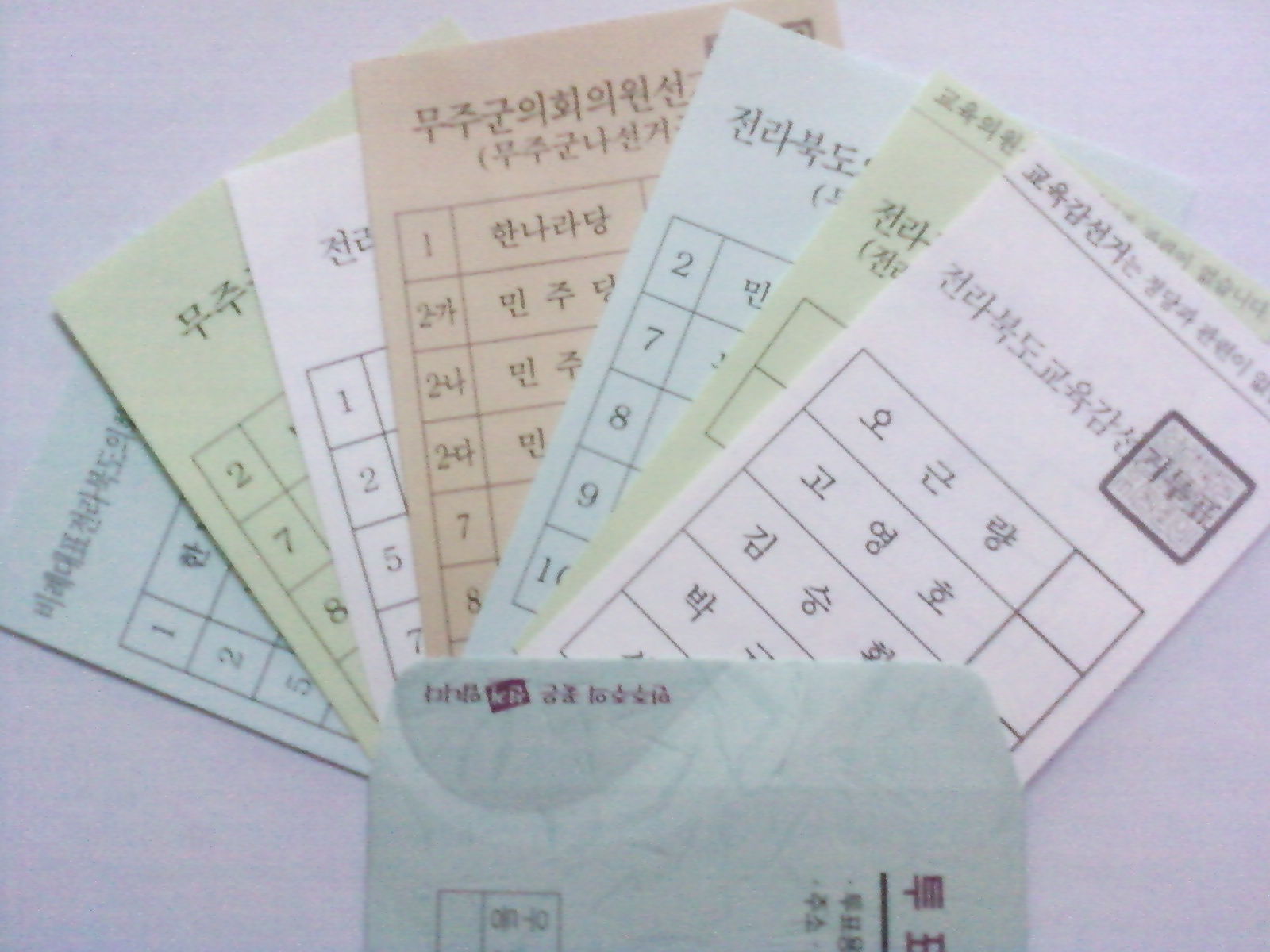 Korean 5th local election ballot paper with envelope, Muju Na